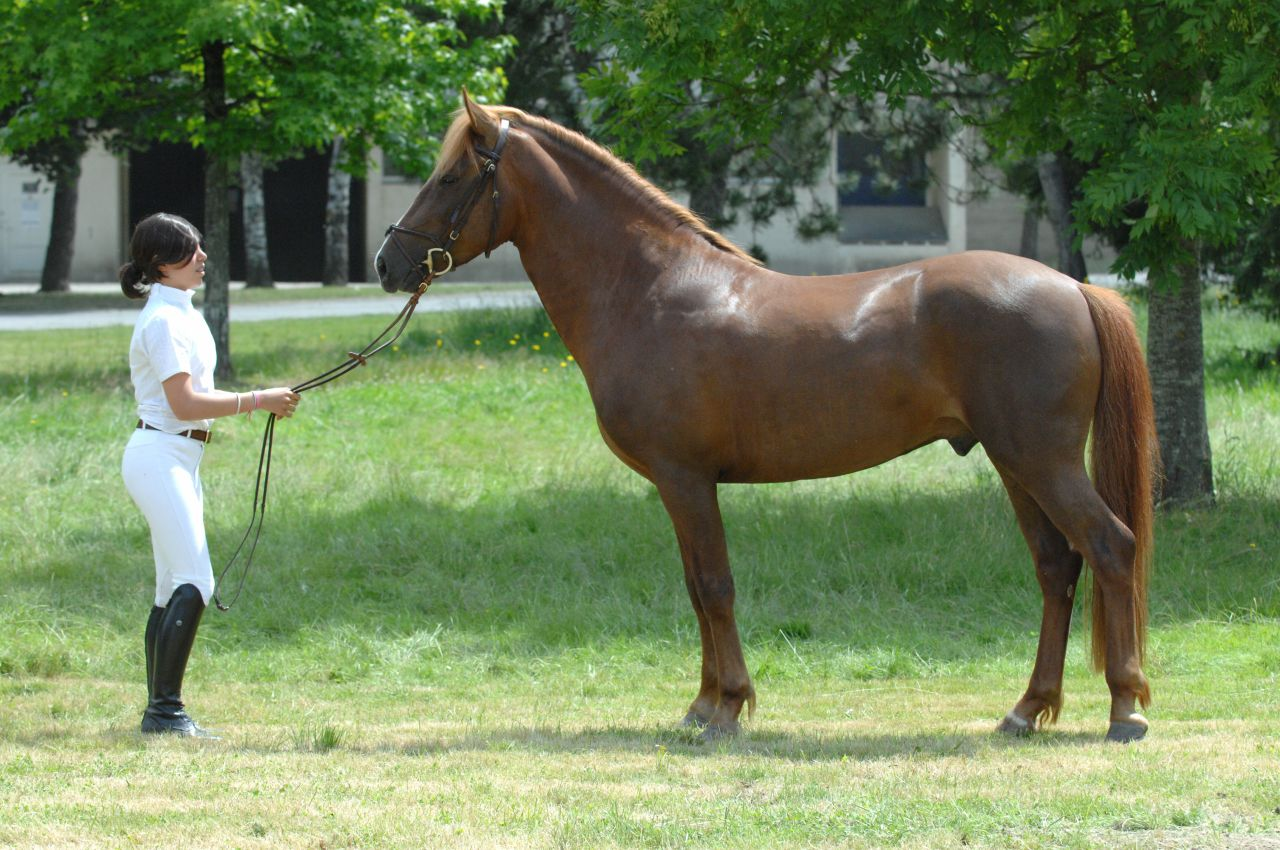 Rockenrol Gevaudan, New Forest stallion, France